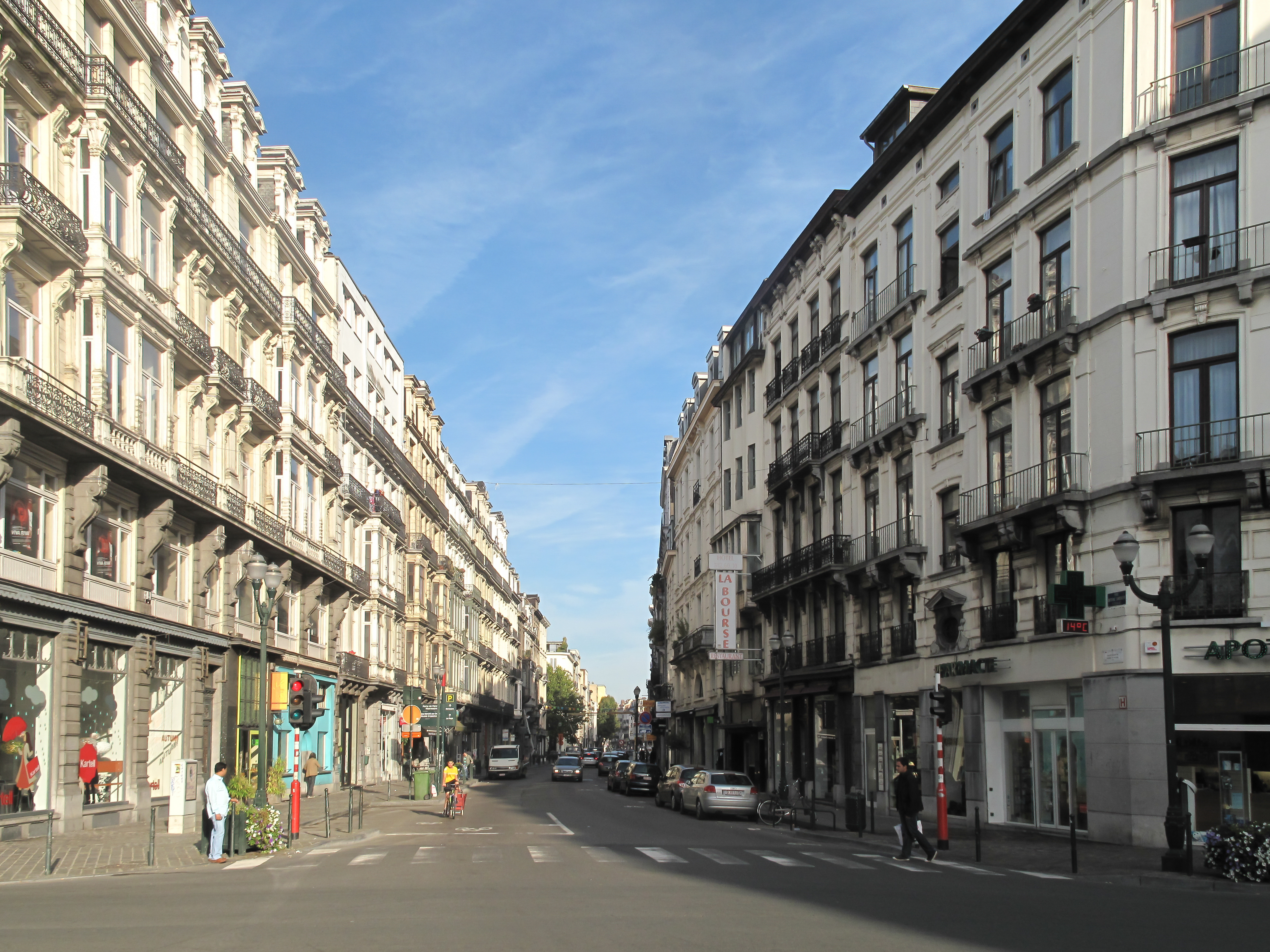 Brussels, street: Rue Antoine Dansaer